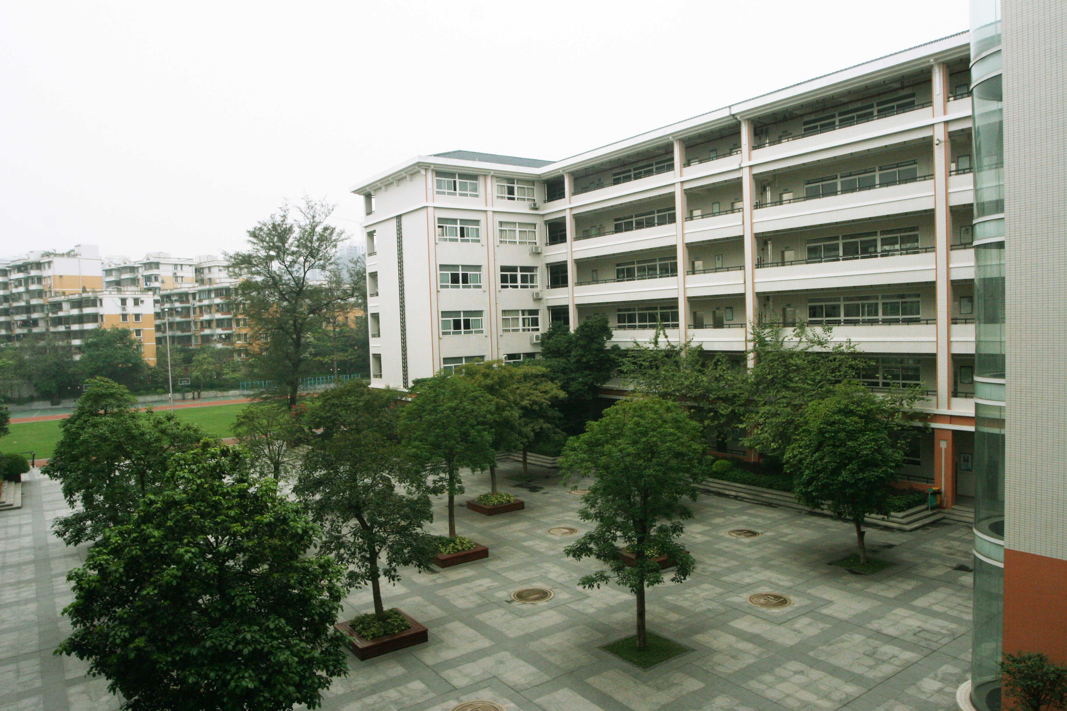 The Central Square of Guangzhou Xiehe High School